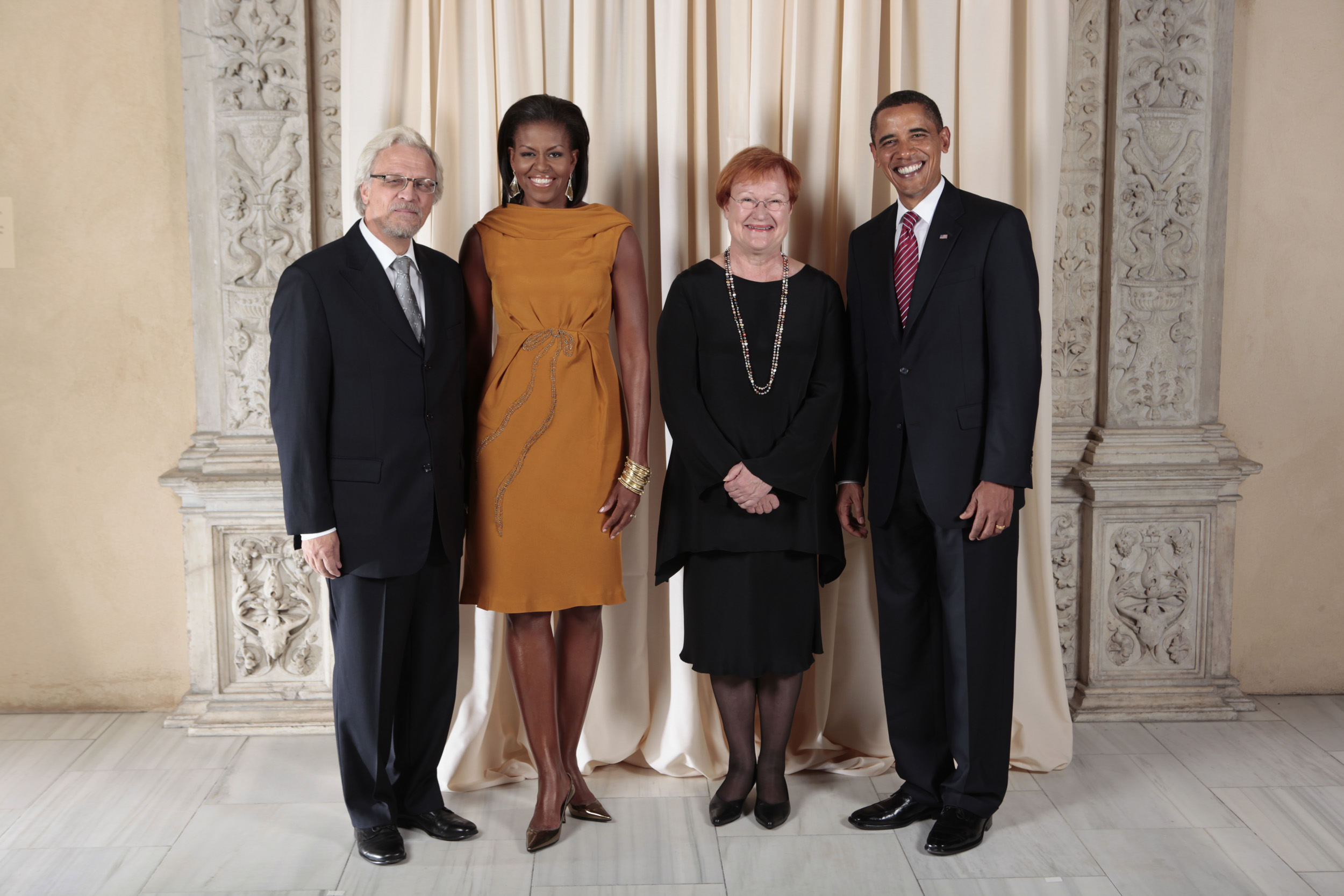 President Barack Obama and First Lady Michelle Obama pose for a photo during a reception at the Metropolitan Museum in New York with Tarja Halonen, President of Finland, and her husband and First Gentleman, Dr. Pentti Arajarvi.